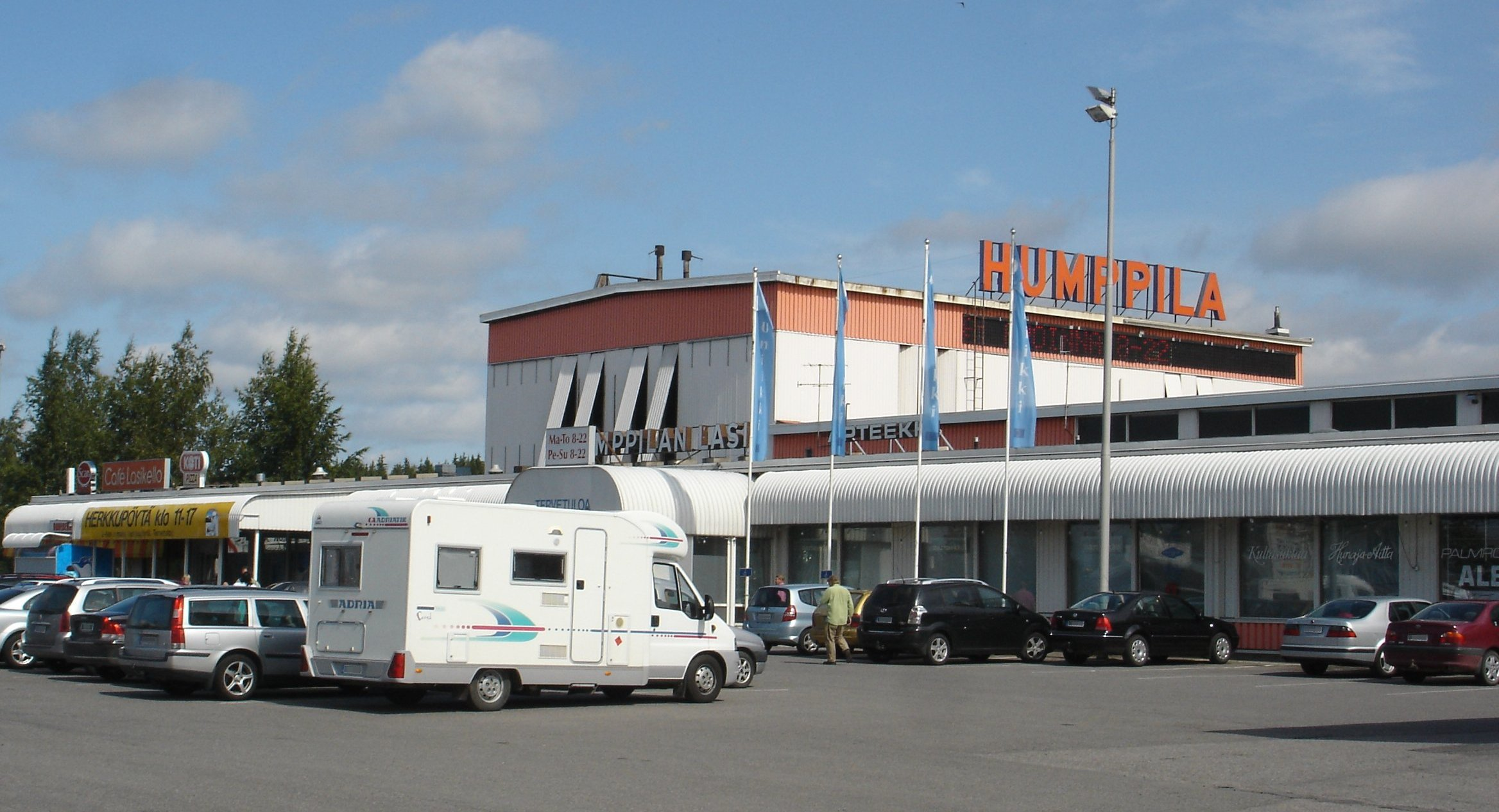 Former glass factory in Humppila. Is now a shopping mall